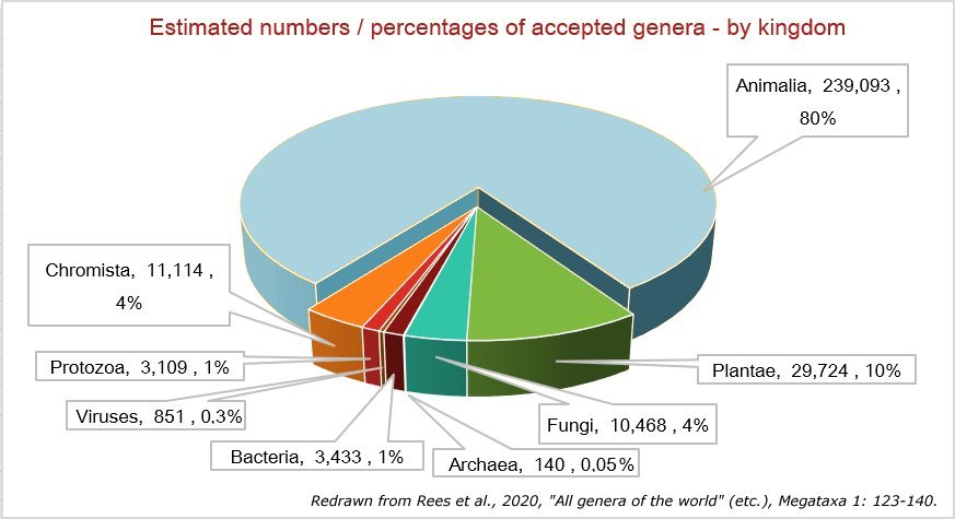 Estimated accepted genus totals by kingdom - based on data in Rees et al., 2020, Megataxa 1: 123-140